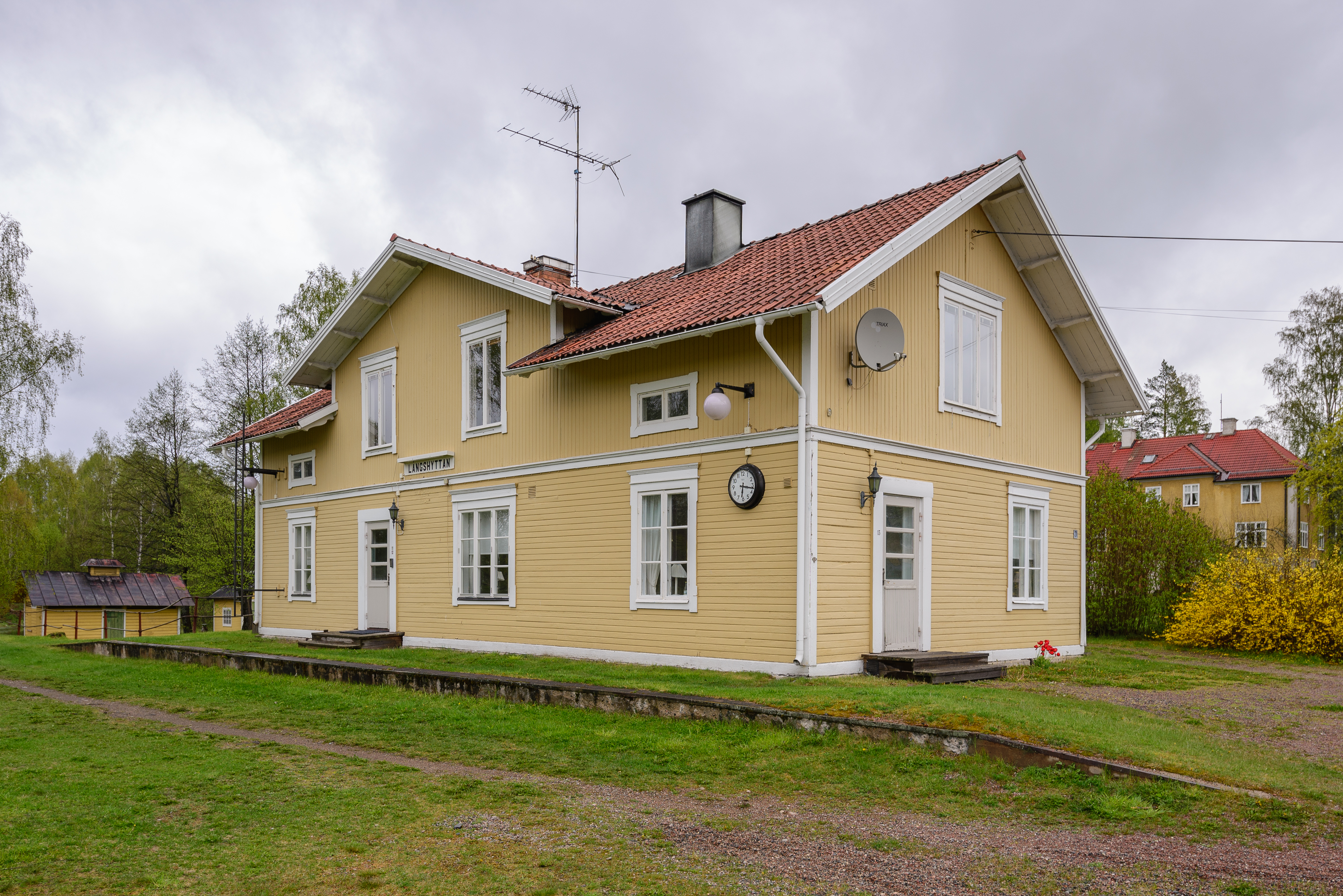 Railway station Långshyttan, Hedemora Municipality, Sweden. Former station at Byvalla - Långshyttan narrow-gauge railway